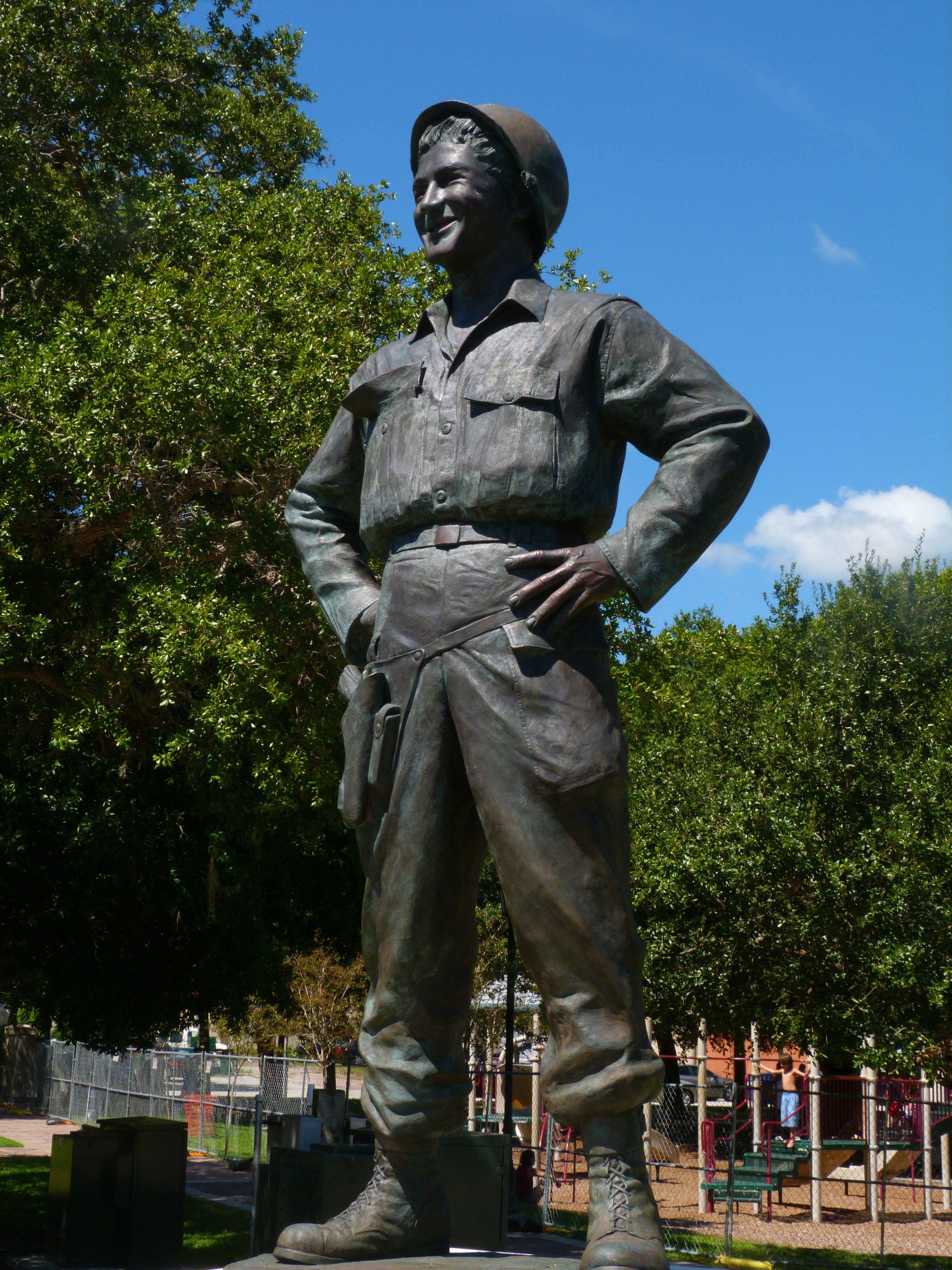 was a United States Army soldier in the Korean War who received the U.S. military's highest decoration, the Medal of Honor.